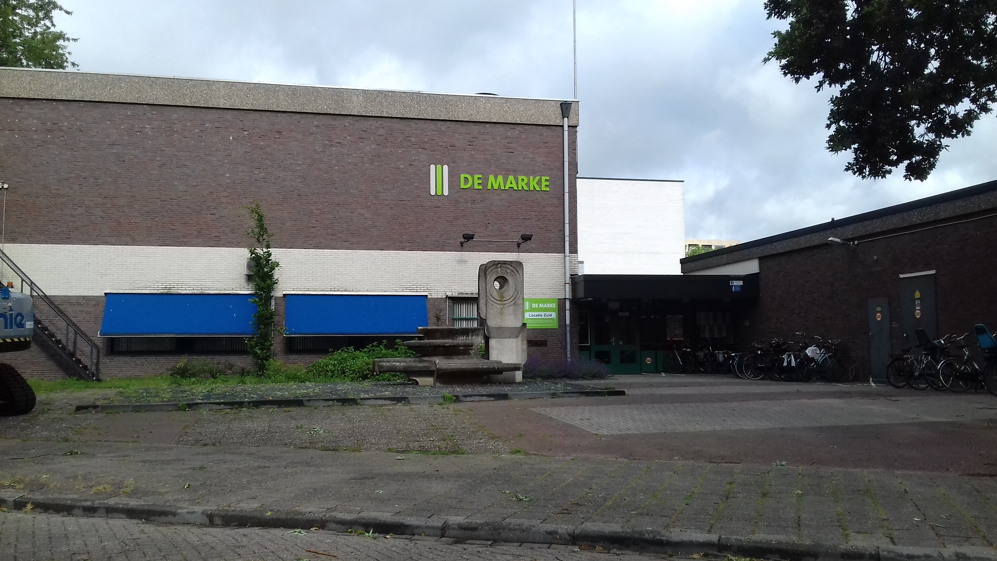 School building of the Etty Hillesum Lyceum location De Marke South (main entrance) in Deventer, The Netherlands